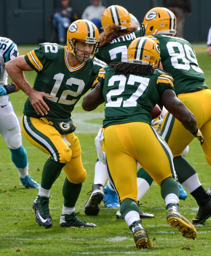 Rodgers hands the ball off to Eddie Lacy vs the Panthers in 2014